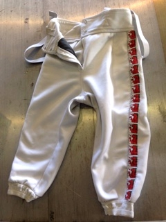 Breeches